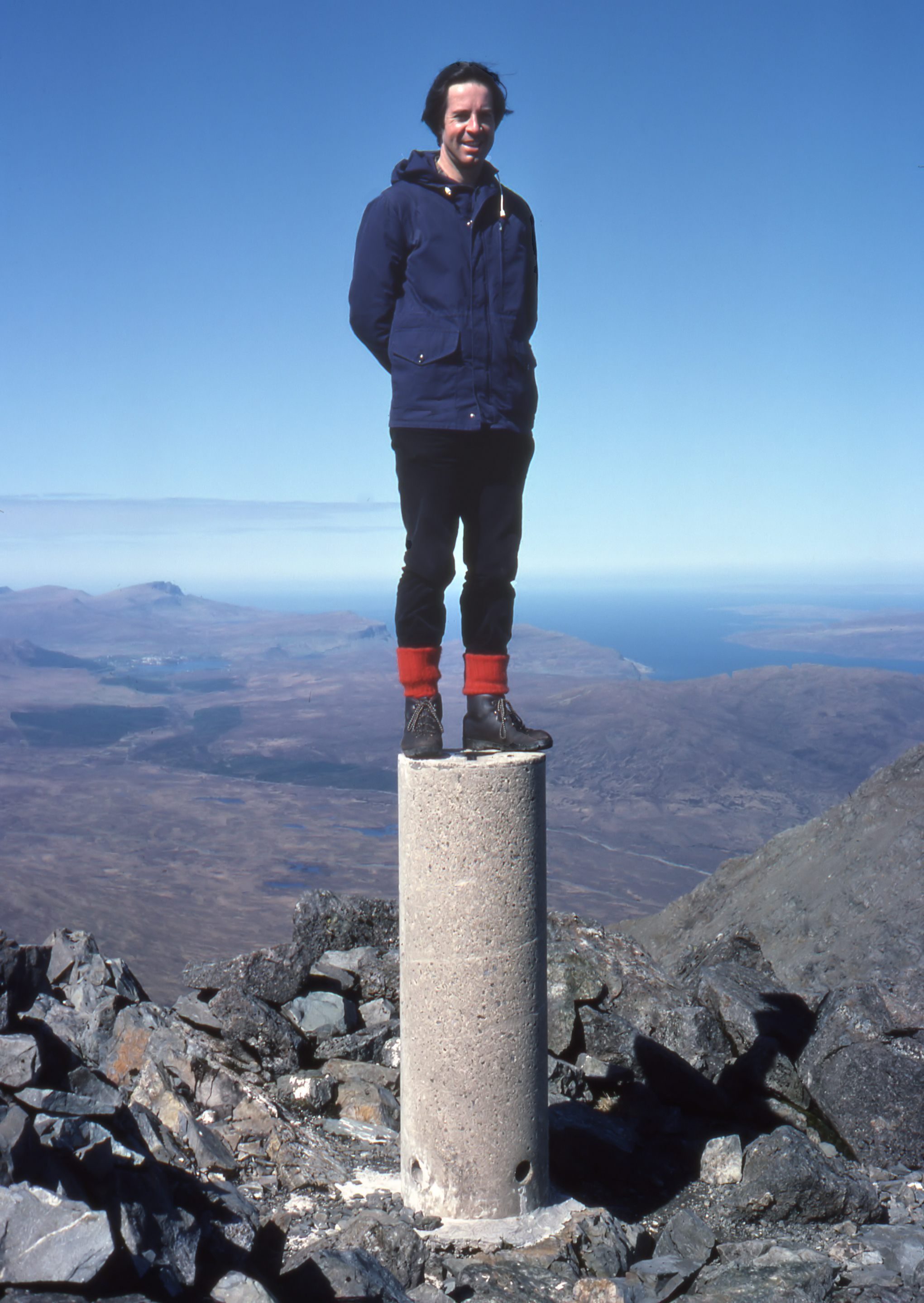 Bruach na Frithe summit pillar (the Cuillin, Isle of Skye, Scotland) in 1976. Photographed for Adrian Pingstone (that’s me in the picture) and released to the public domain.